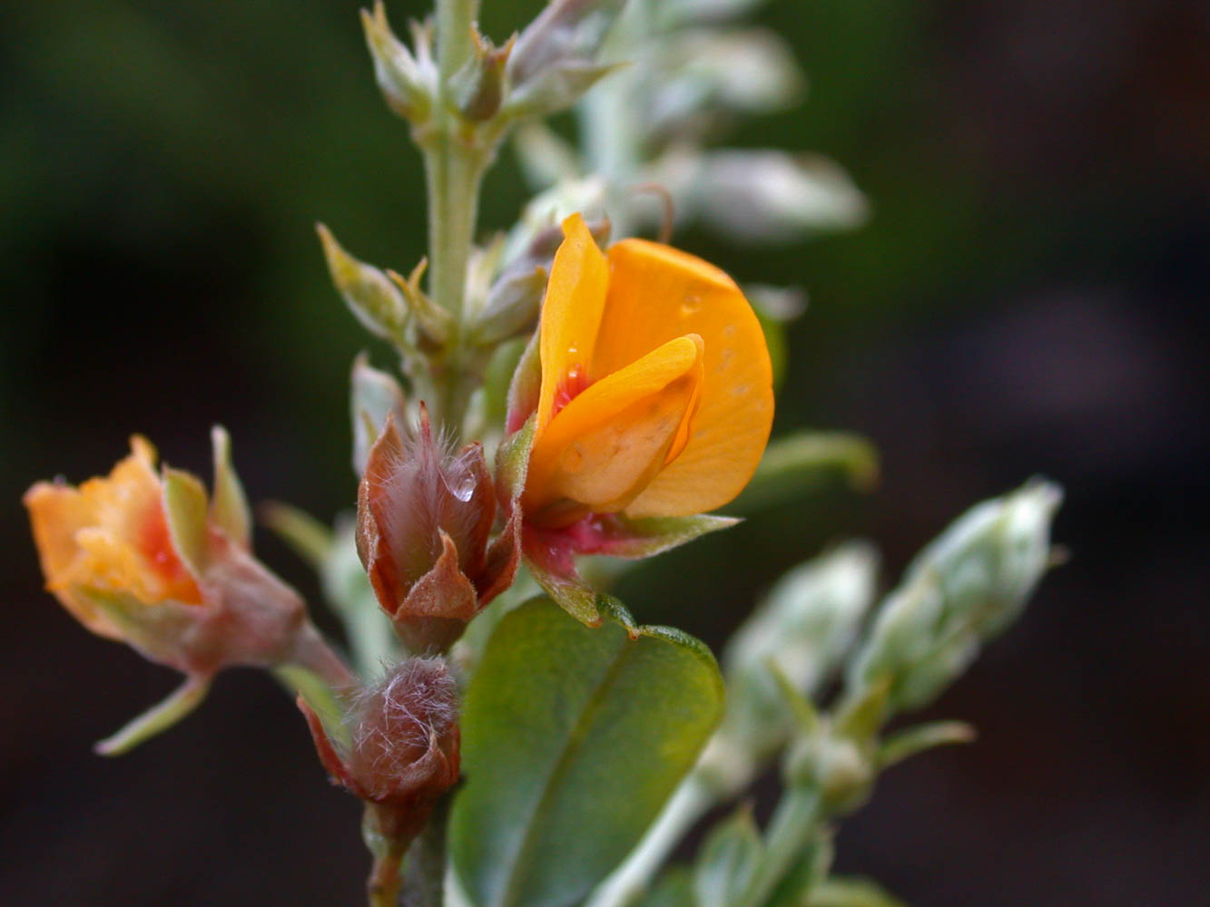 Pods with flowers.pods are usually grey brown , rounded ,covered with long silk hairs.